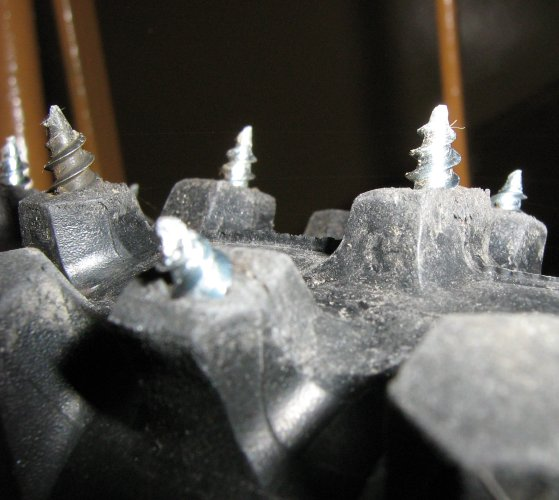 Bike winter tyre with homemade spikes